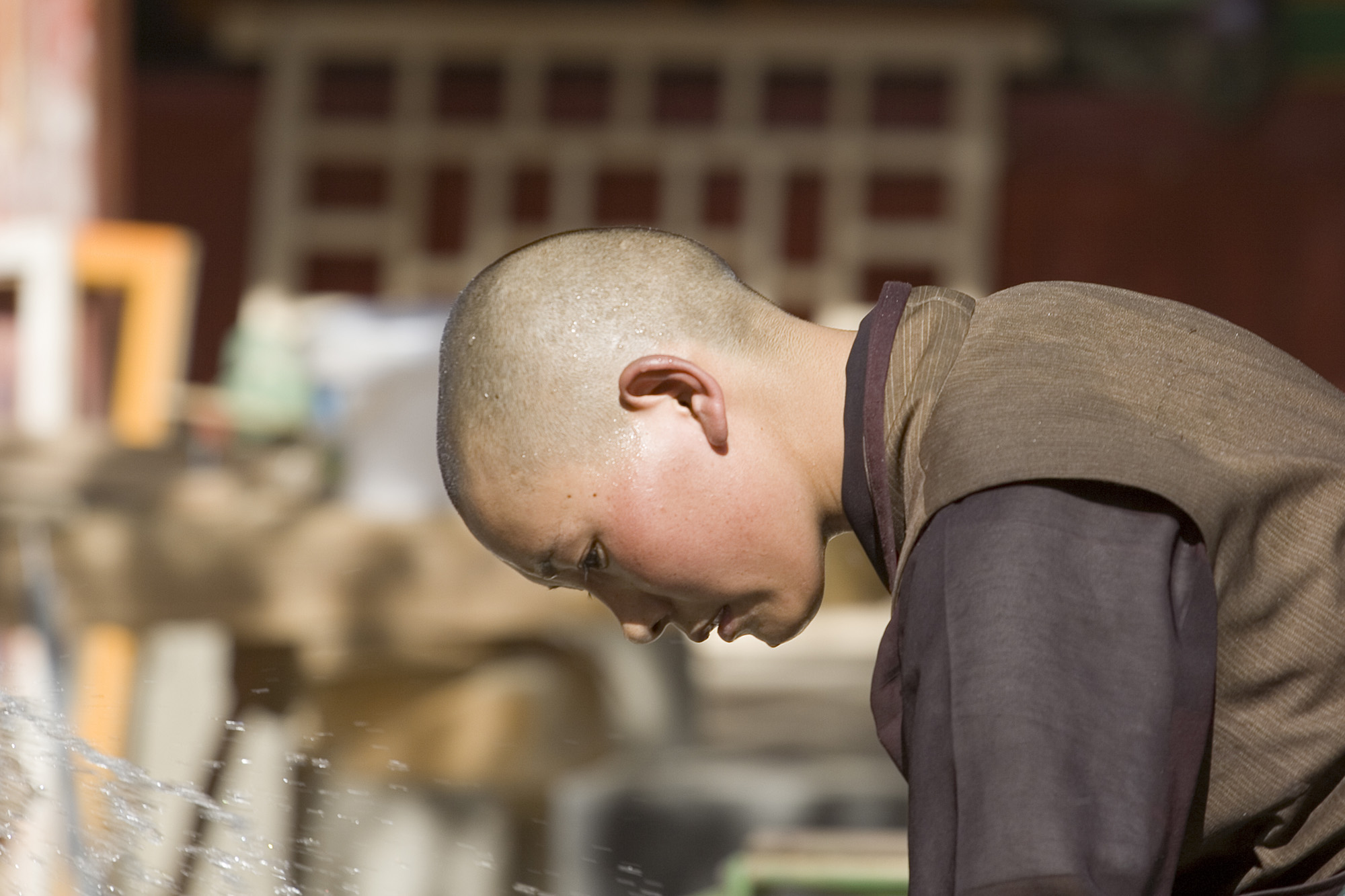 Female Buddhist Monastery (Ani Tshamkhung) in Lhasa, Tibet.